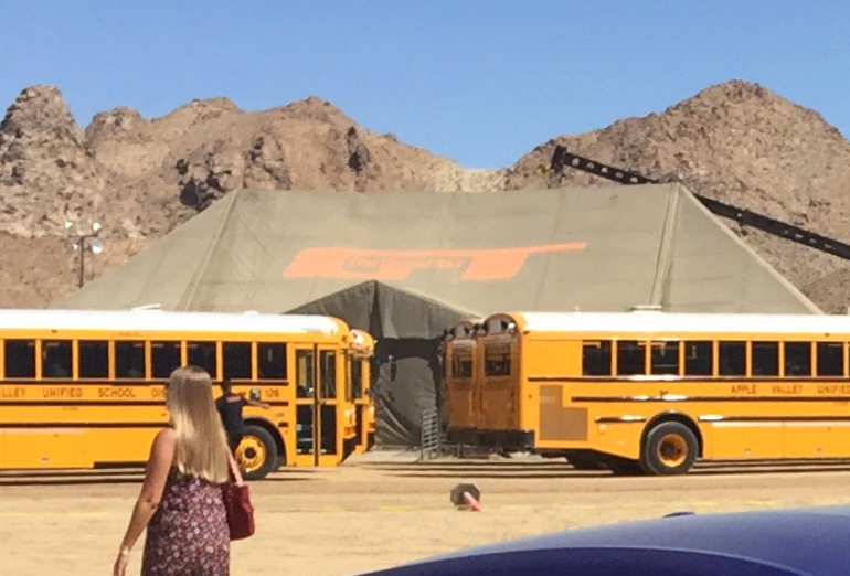 The Grand Tour (TV series) studio tent hidden behing during filming of "The Holy Trinity" opening sequence for The Grand Tour (TV series) filmed in the Lucerne Valley, California on 24‒25 September 2016.